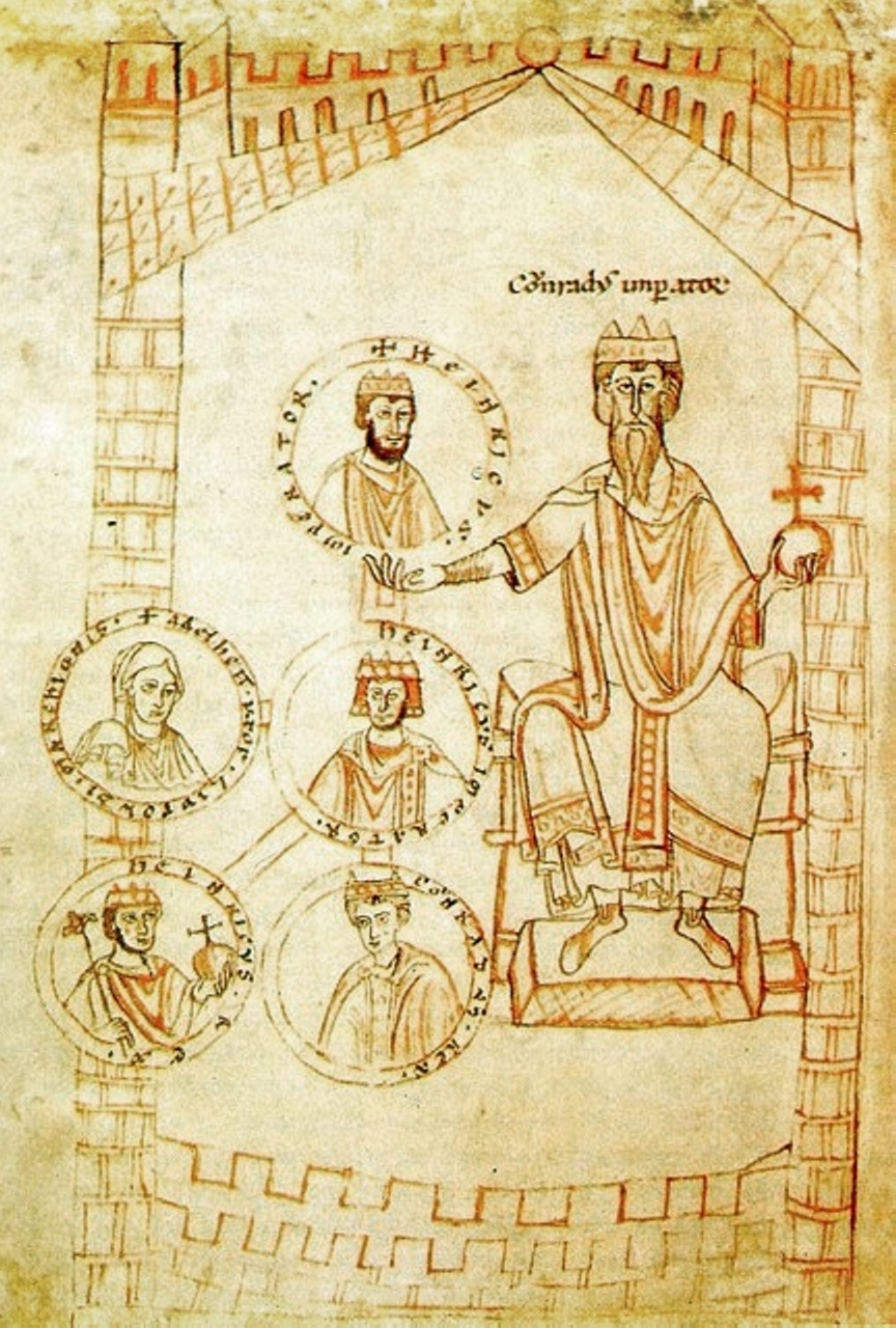 Emperors of the Salian dynasty: Conrad II, Holy Roman Emperor an the throne holding images of Henry III, Henry IV, Conrad, Henry V and Agnes